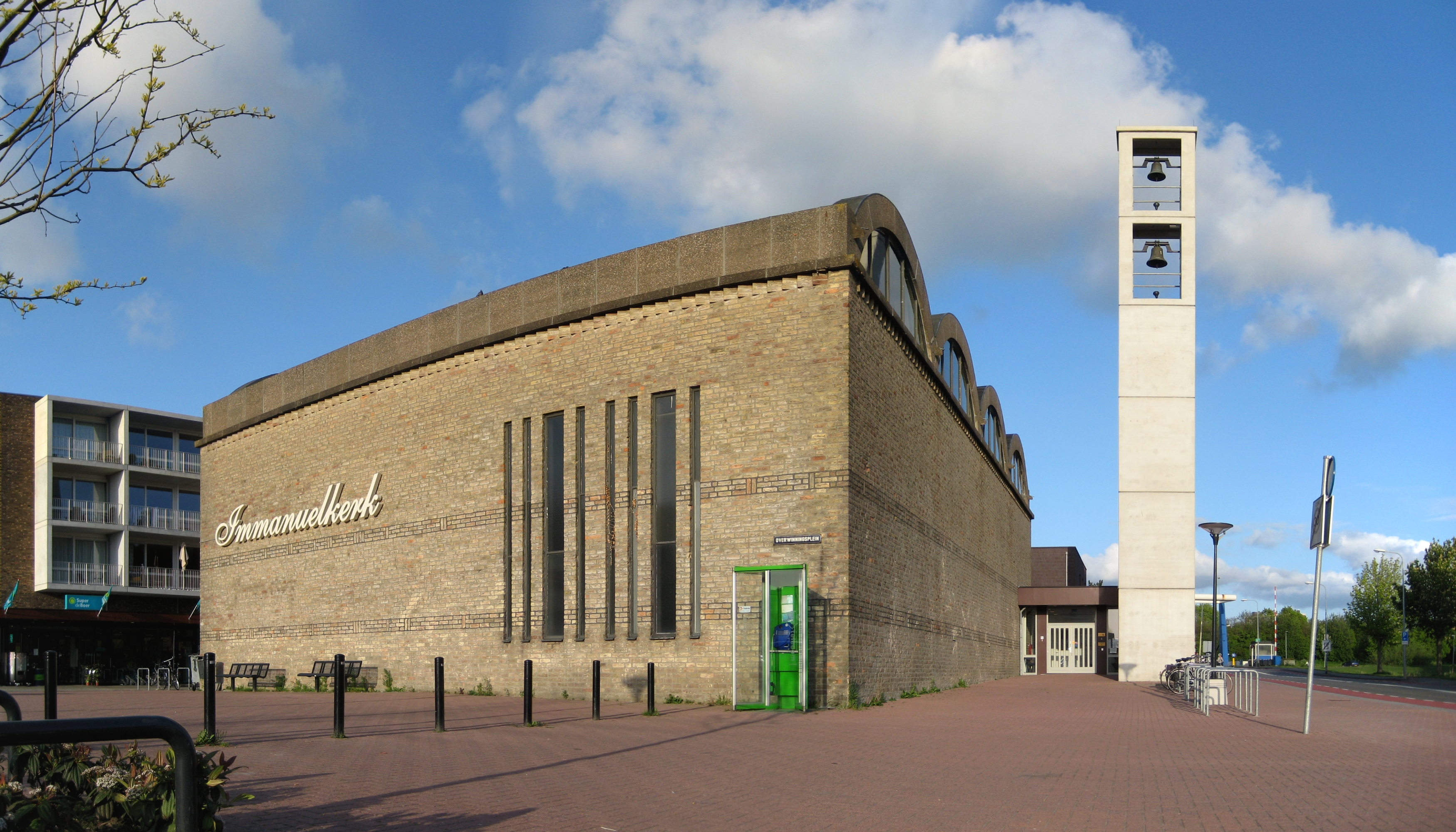 The Immanuelkerk, a church (b. 1964-1965) in the Dutch city of Groningen.